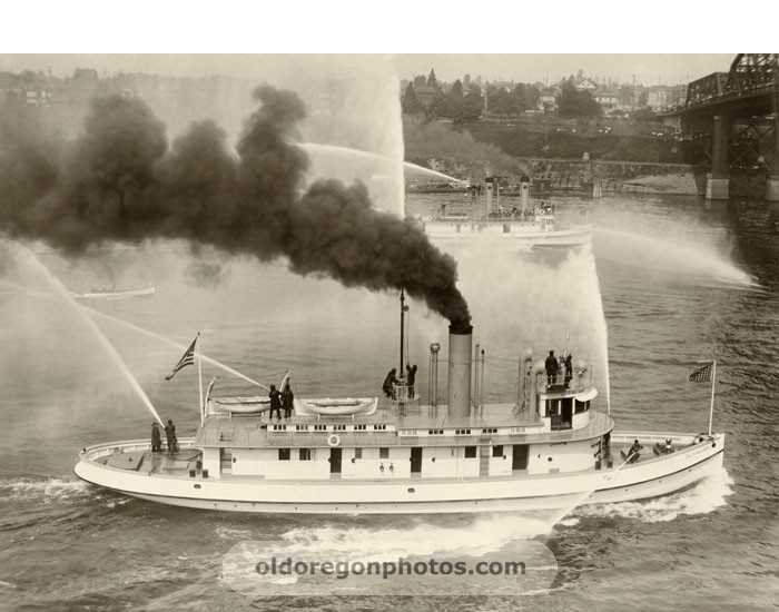 fireboats_David_Campbell_(distant) and George_Williams_displaying_on_the_willamette_river.